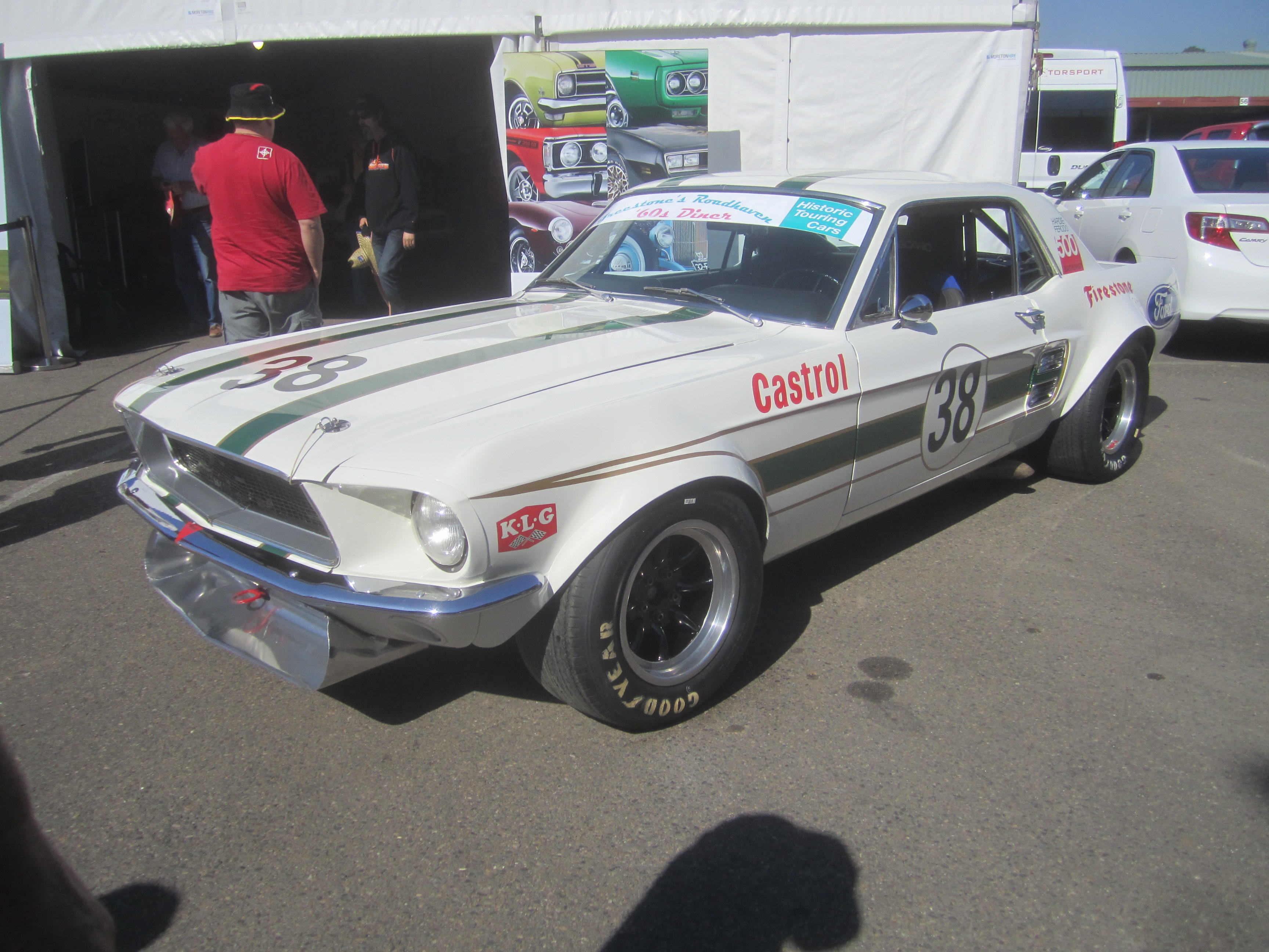 The ex Ian Geoghegan 1967 Ford Mustang of David Wall at Sydney Motorsport Park on 1 September 2013. The 1967 Mustang was a slightly different shape to the 1966 model and was also larger than its predecessor, mainly to allow for the installation of a Big Block engine. Still available in Fastback, Hardtop and Convertible bodystyles and with a 'GT' option; (V8, fog lamps, rocker panel stripes and disc brakes). Australian race car driver Ian "Pete" Geoghegan sold his original Mustang during 1967 and replaced it with the latest model. It was delivered to Geoghegan in April 1967 as an automatic road car - the legendary car builder John Shepherd wove his magic using all the trick bits available at the time. The 289-cid V8 was built with 4x48IDA Webers (later changed to a 302ci V8 with Lucas fuel injection on a Shelby Cobra manifold), Crower camshaft with roller cam followers and steel crankshaft with a close-ratio four-speed gearbox. Ian Geoghegan won the Australian Touring Car Championship three years running in this car, claiming the title in 1967, 1968 and 1969.